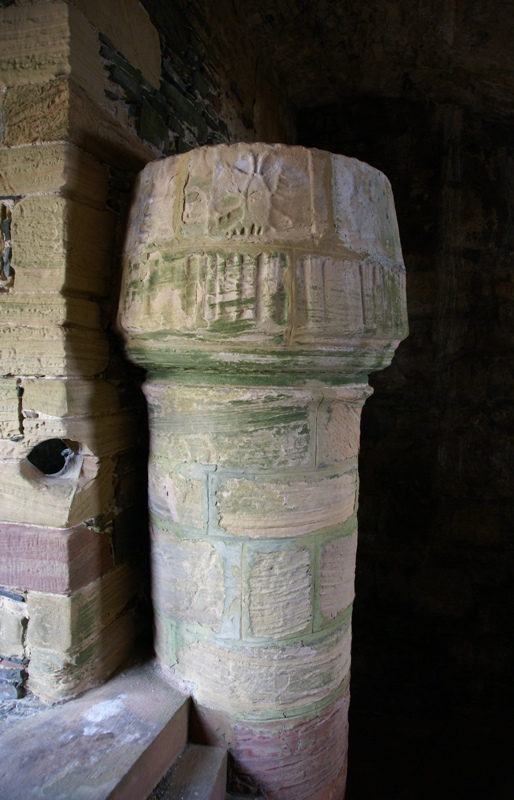 Noltland Castle, Westray, Orkney, Scotland. Stair capital in the southwest tower.